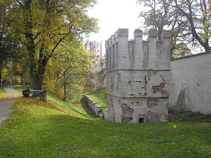 Landsberg am Lech (Oberbayern). Stadtmauer nördlich des Bayertores. Blick nach Süden. Eigene Aufnahme, Okt. 2006 / Landsberg am Lech (Upper Bavaria, Germany). City wall north of the „Bayertor“ („Bavarian gate”), looking south. Own photo, Oct. 2006.